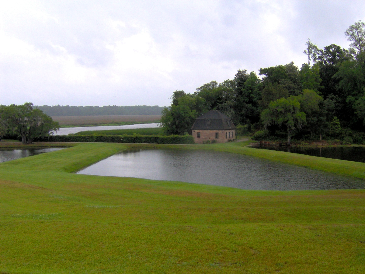 The "Butterfly Lakes" (foreground and left) and the Rice Mill at Middleton Place, near Charleston, South Carolina, USA. The Ashley River is visible in the distance.